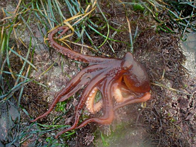 Tide pools octopus. Octopus could go out of the water and move between the pools in low-tide zone.